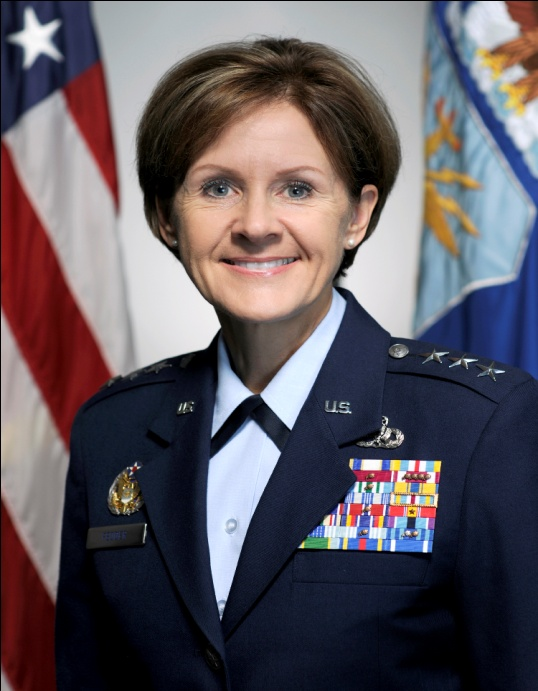 Lieutenant General Judith A. Fedder